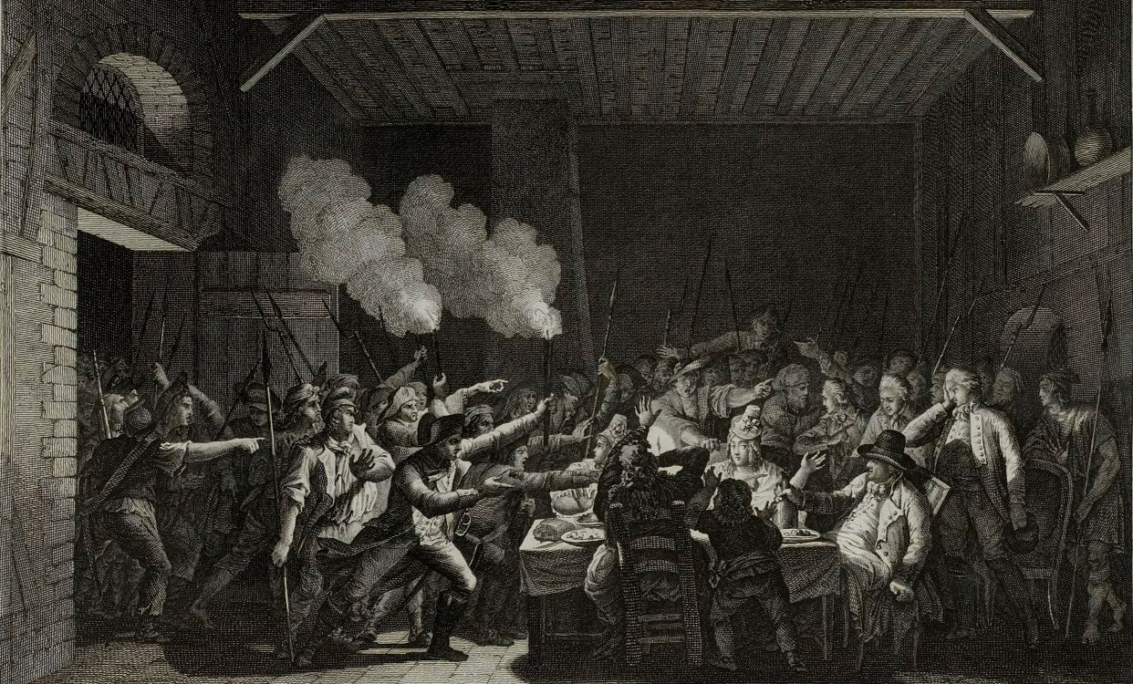 Print of the arrest of Louis XVI in Varennes on 22 June 1791